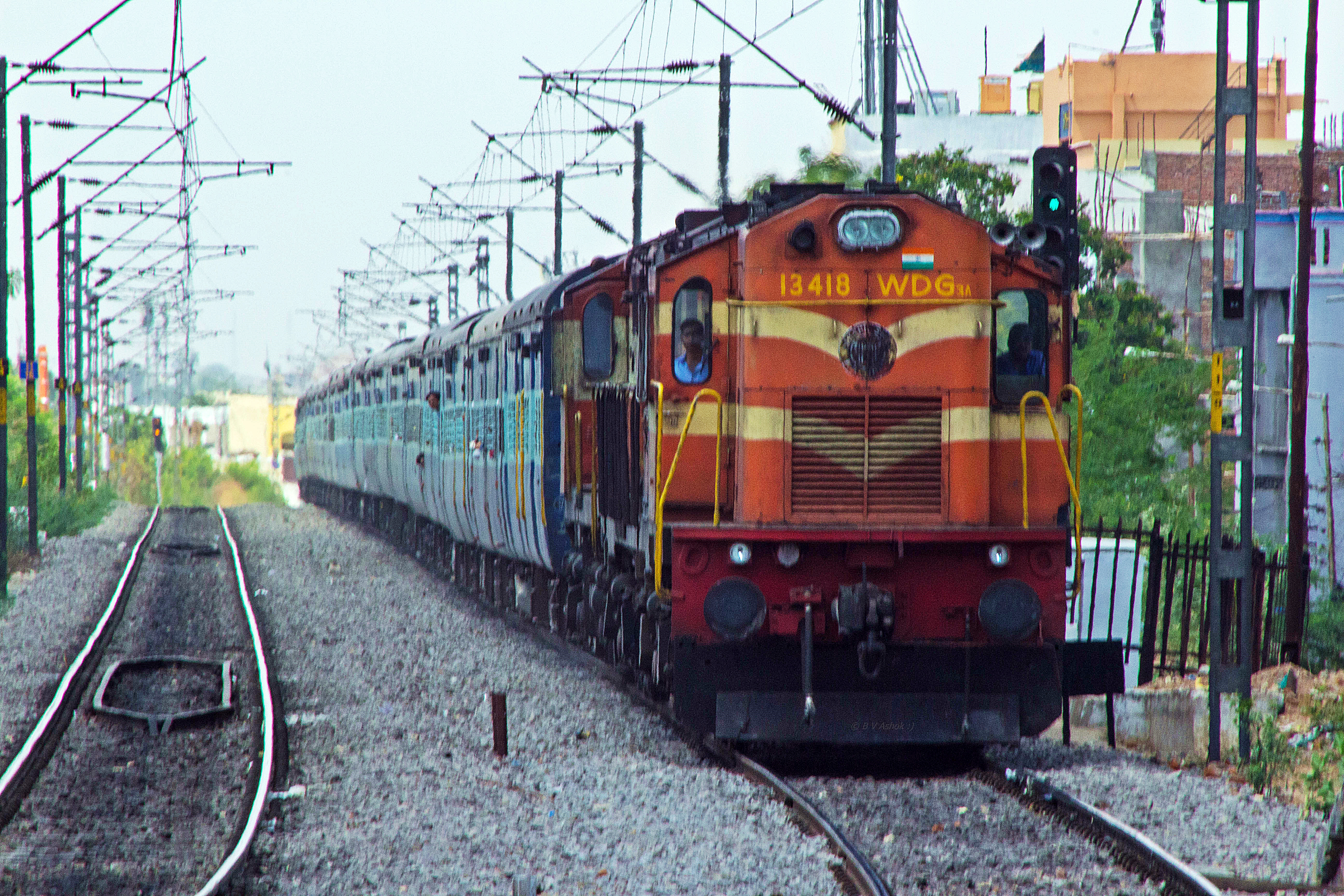 KZJ WDG-3A twins led by 13418 cruising towards Yakutpura with 22683 Yeshvantapur - Lucknow Superfast Express....